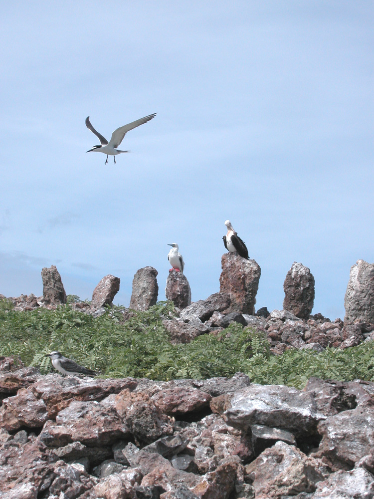 Ancient upright stones ("heiau") on Necker Island (Mokumanamana), Northwestern Hawaiian Islands